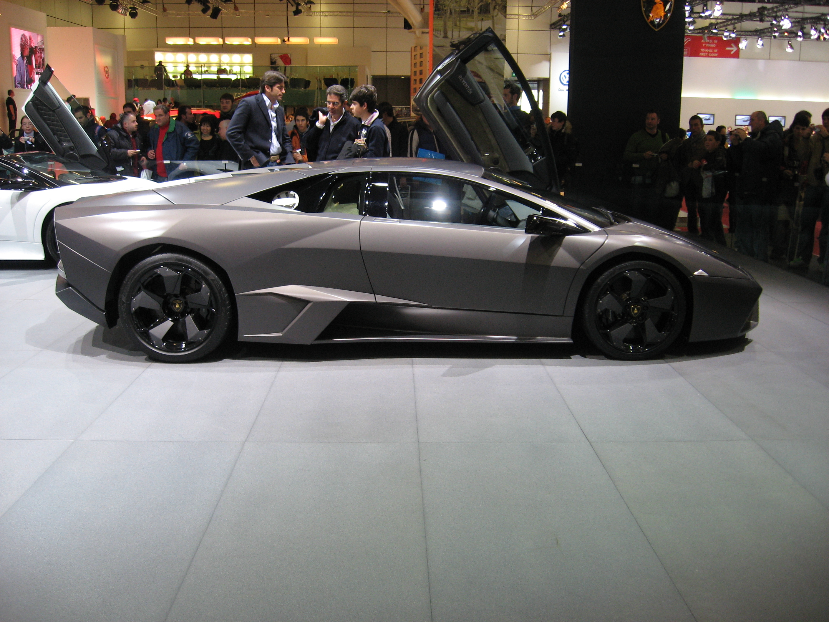 Subject:Lamborghini Reventón Author:Luc106 Date:December 13th, 2007 Event:Motor Show Bologna 2007 Place/Country: Bologna, Italy I release all rights in the public domain.